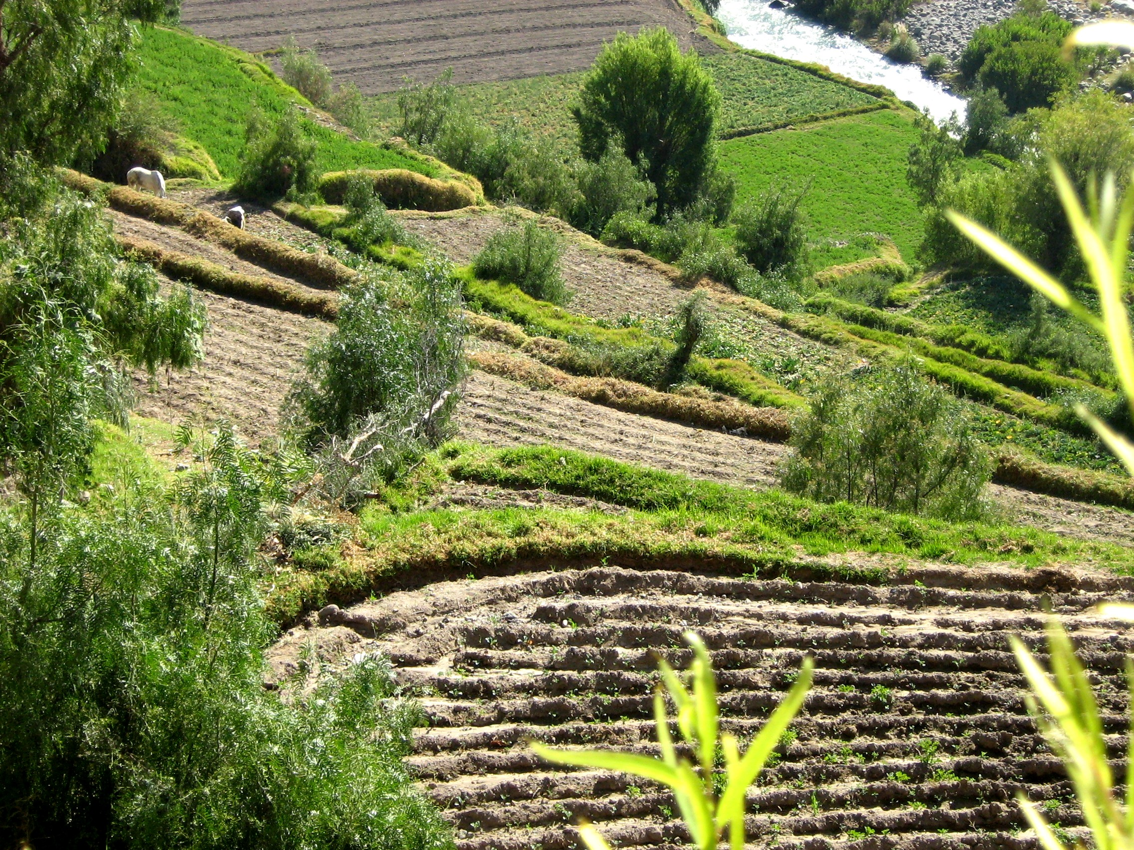 In the South American country of Peru, terraced farming has for centuries been a popular method to maximize potential agricultural land on the steep Andean slopes. Such methods are also utilized widely in South-East Asia. Here, just outside Arequipa, both pastoral and arable farming is taking place. The rich volcanic soil makes for excellent growing conditions for crops such as potato, marrow and tomato, all of which can be seen here recently sown.